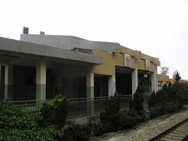 TRA Fangshan Station - Shihzih Township, Pingtung County, Taiwan.